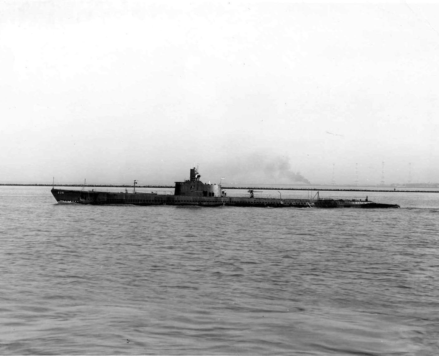 USS Silversides; Broadside view of USS Silversides (SS-236) on or about 31 March 1942 as she was on sea trials.